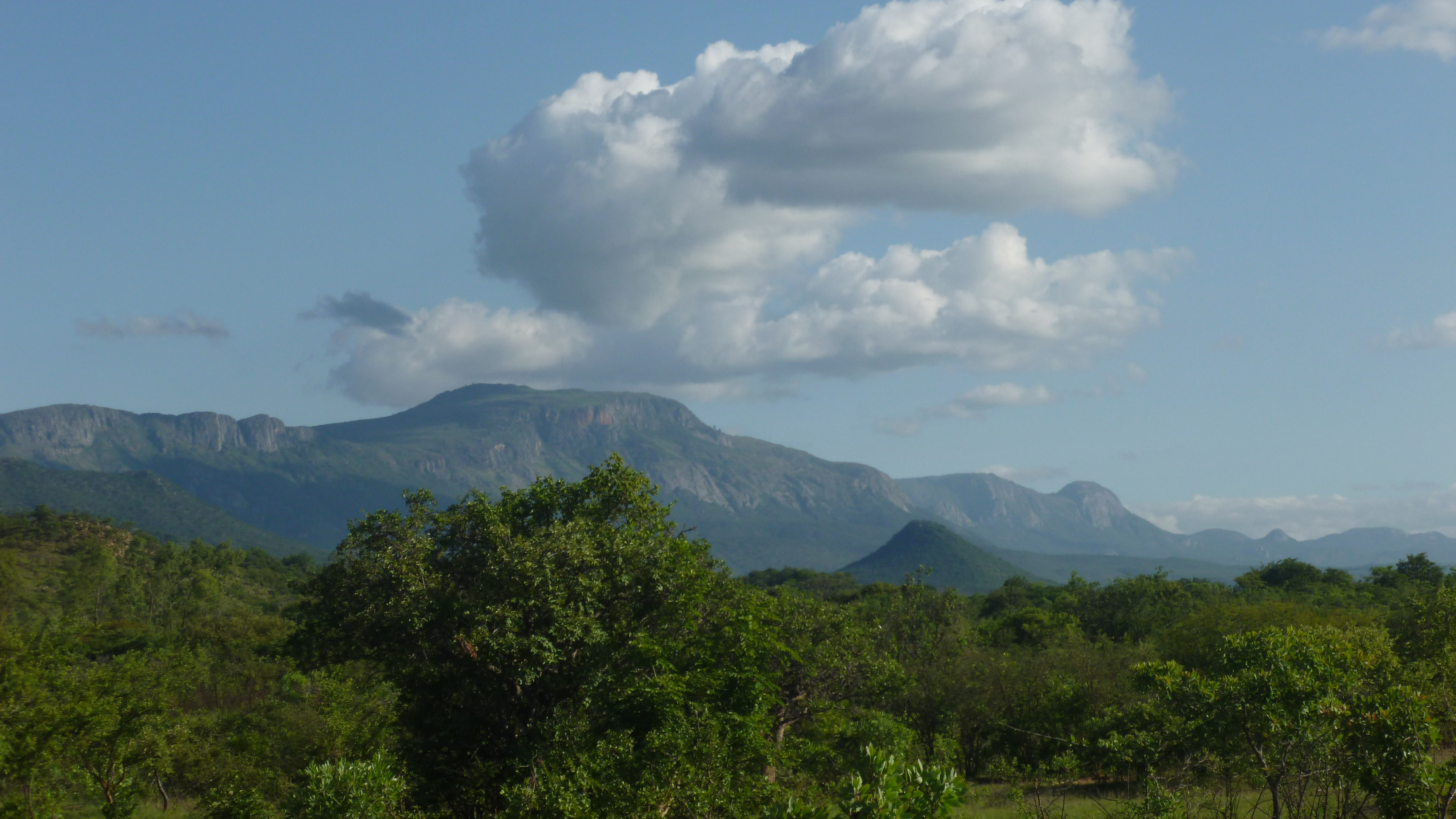 The Eastern Highlands range extends along Zimbabwes Eastern border.